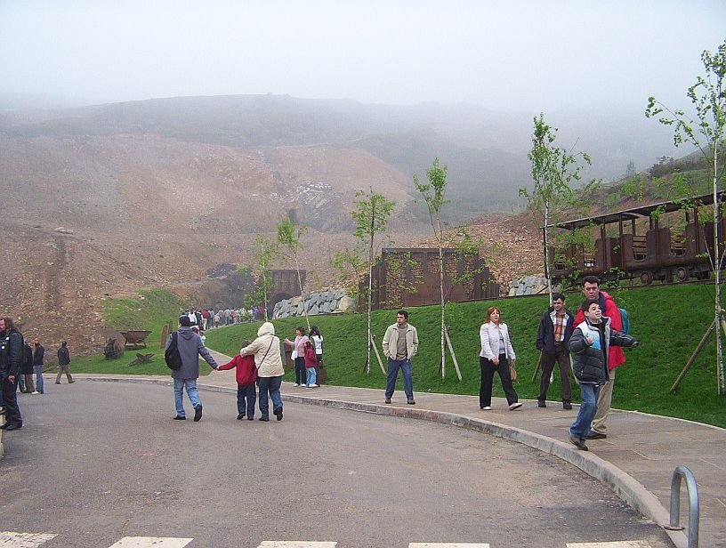 Entrance to the El Soplao cave. Herrerías (Cantabria, Spain)